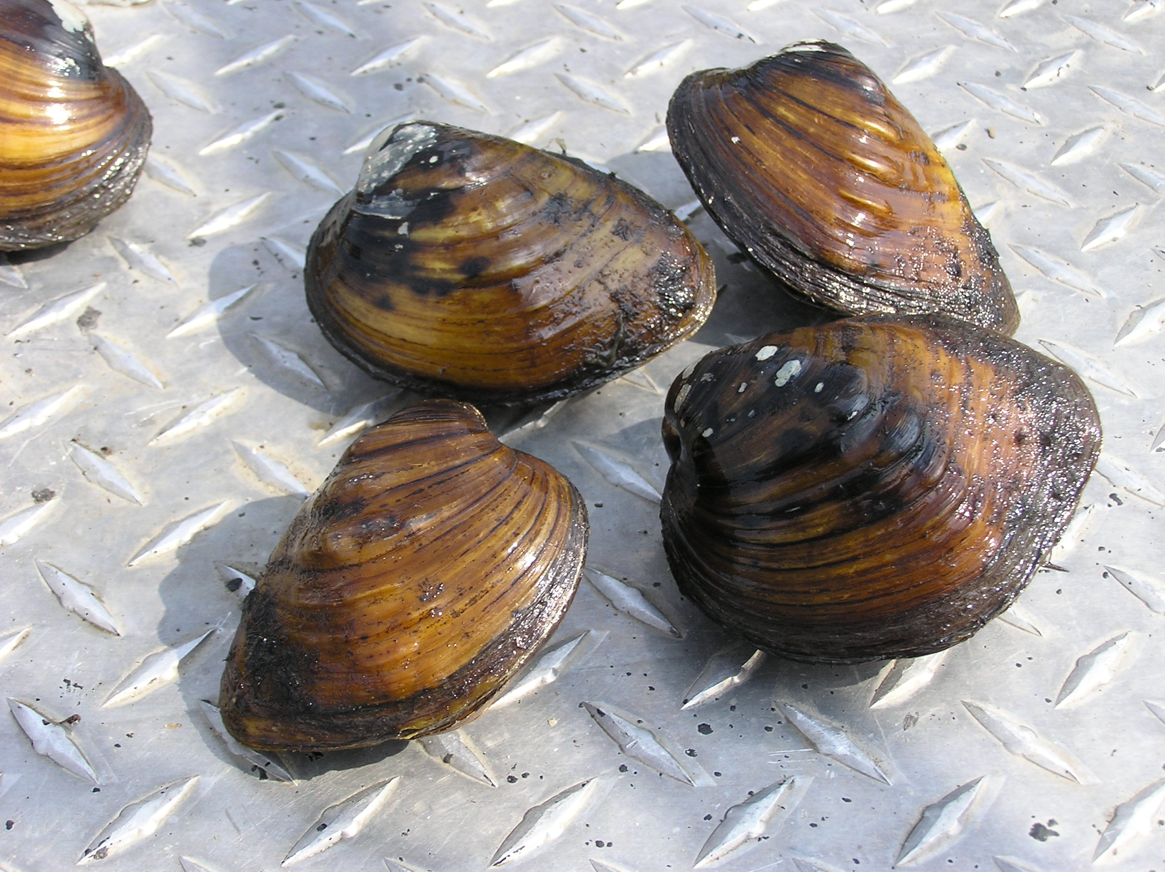 Sheepnose mussel, Plethobasus cyphyus. From Flickr: "The sheepnose is a freshwater mussel that has been proposed for listing as endangered."